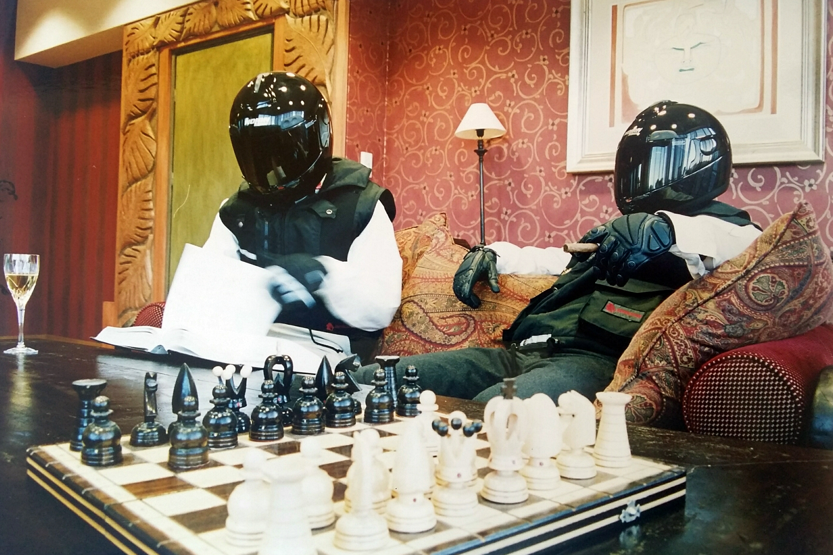 Photo taken by Marcin Żurawicz (MaZu Photography) in 2001 in the building of the Warsaw Stock Exchange, courtesy of Hunton & Williams. The photos from the session were used to promote events in such magazines and newspapers as Fluid, Aktivist and Gazeta Wyborcza.